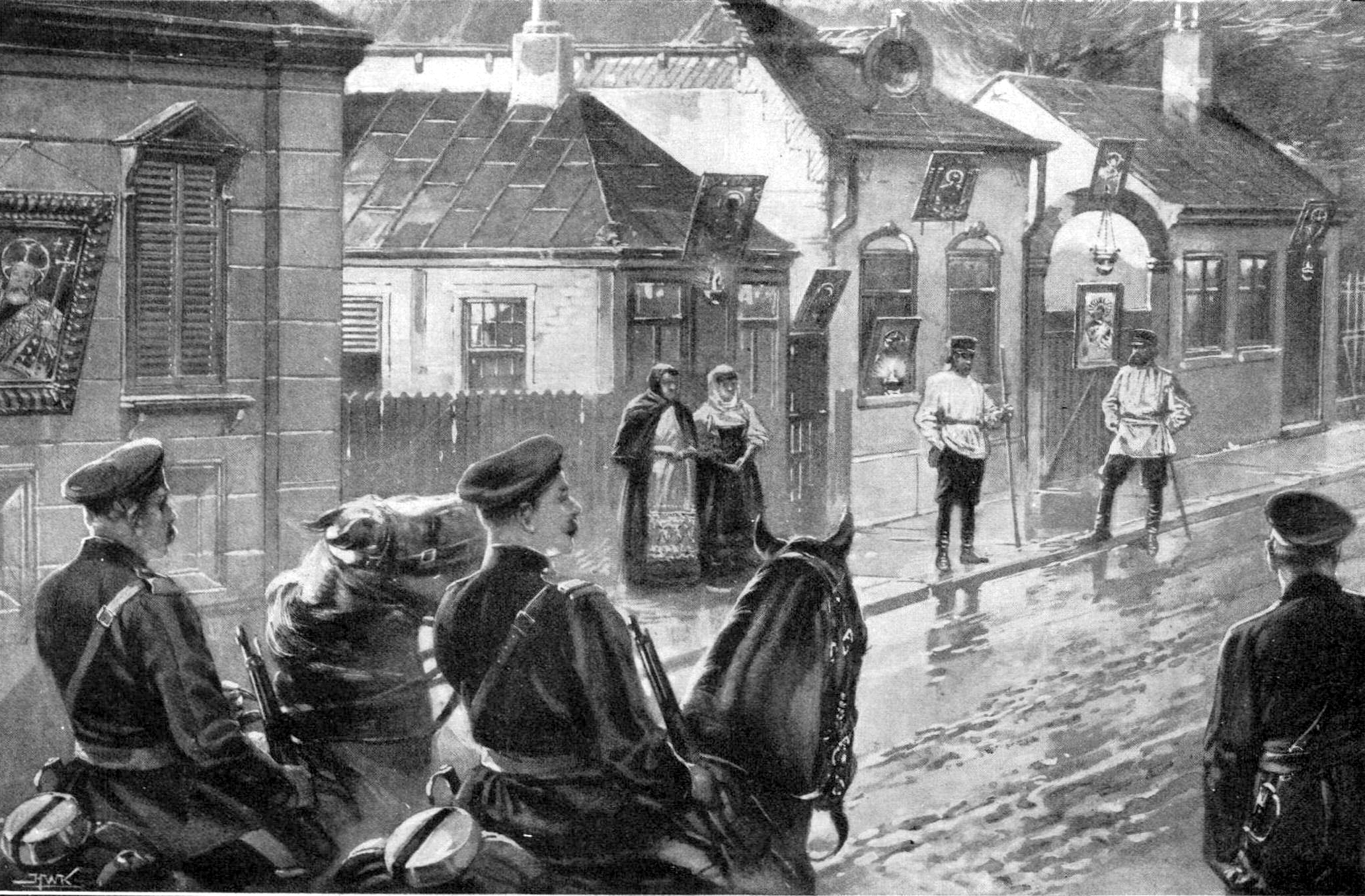 Under the Guard of the Ikon - The Reign of Terror on the Roumanian Frontier The inhabitants of Russian Ungheni (there is a Roumanian Ungheni) are in great fear of the town's being devastated by some of the criminal bands who are turning the revolution to their own purposes of depredation. They do not trust the military guards. As the attacks are generally made first on the Jews, the Christians place their ikons (sacred pictures) and lamps on their gates and windows as a sign that the houses belong to true believers.